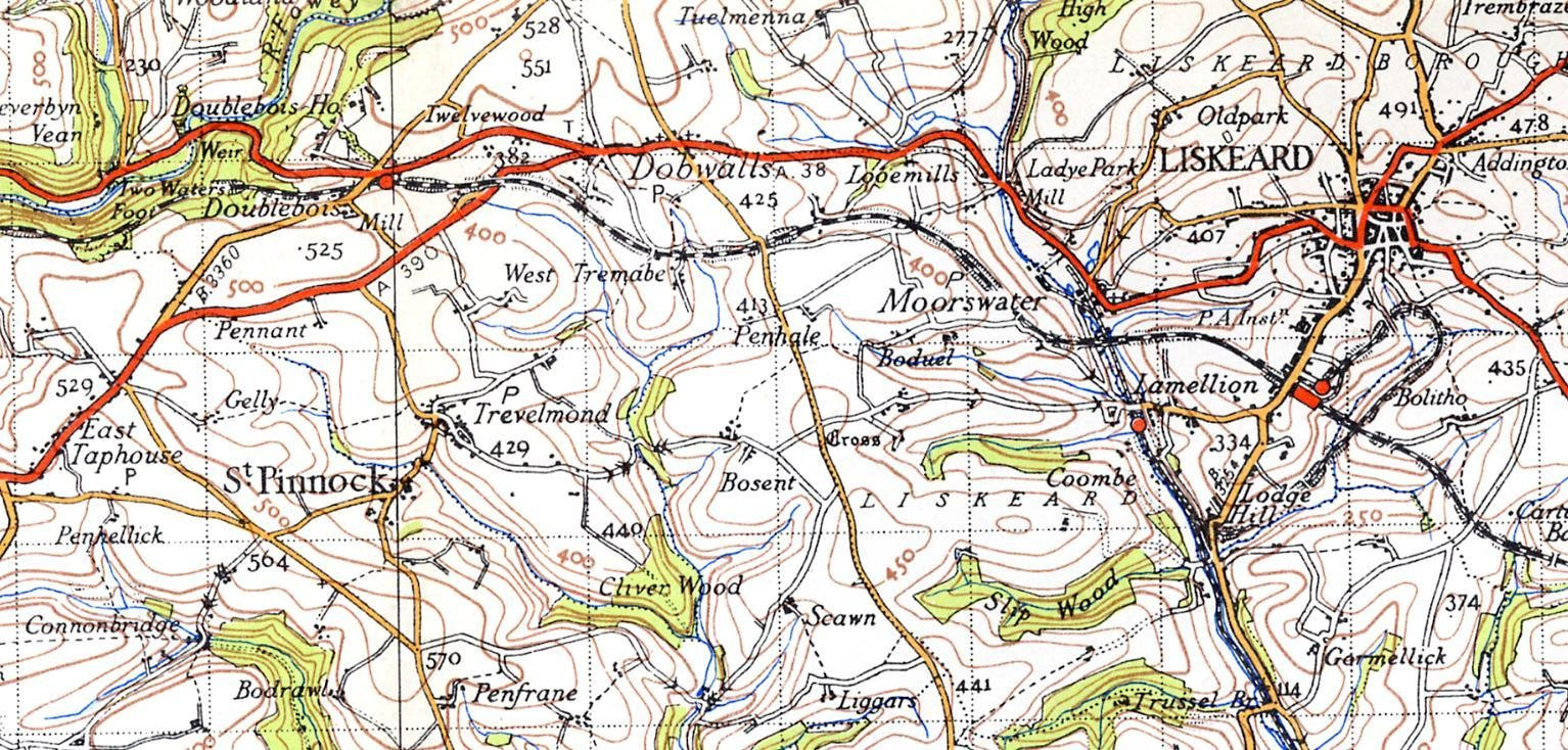 The One Inch to the mile Popular Edition of Ordnance Survey maps were a complete new issue just after the Second World War. As Crown Copyright is for a term of 50 years, these are now in the Public Domain. This image is take from a scan of a map in my possession, cleaned up and corrected.